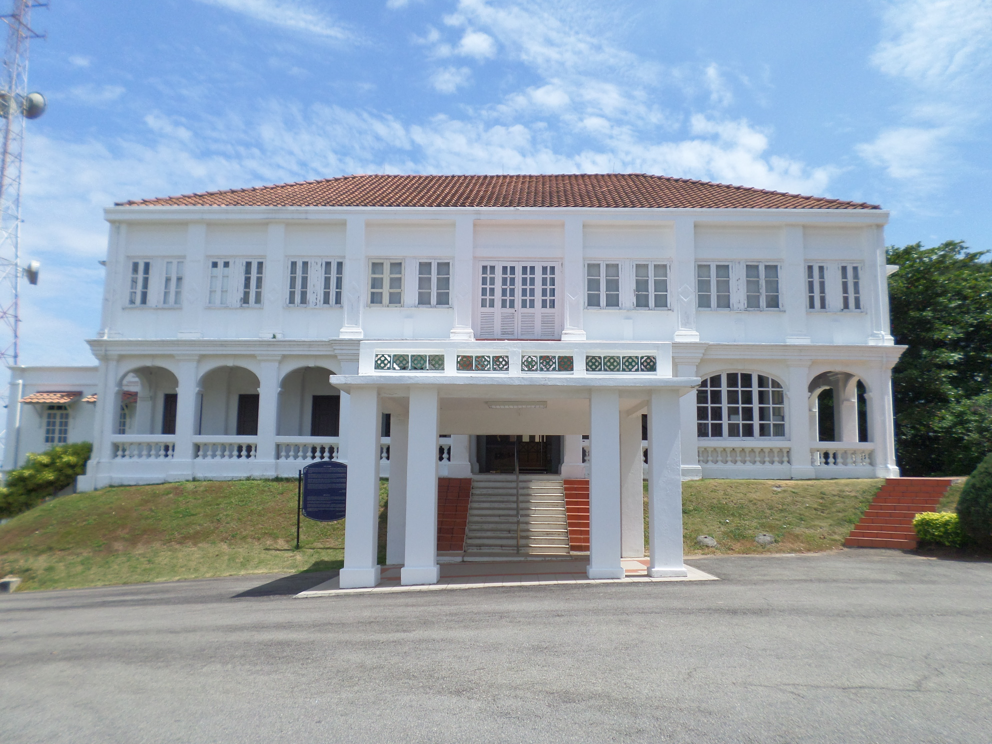 Governor's Museum, Central Malacca, Malacca, MalaysiaBahasa Melayu: Muzium Yang di-Pertua Negeri Melaka, Melaka Tengah, Melaka, Malaysia